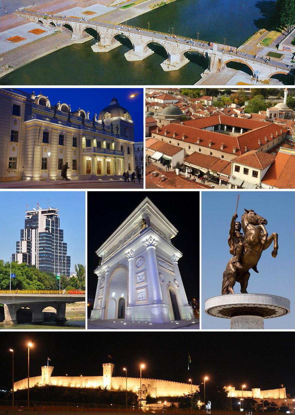 Landmarks of Skopje, North Macedonia